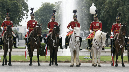 Pakistan cavalry honor guard welcomes President George W. Bush to Aiwan-e-Sadr in Islamabad, Pakistan.